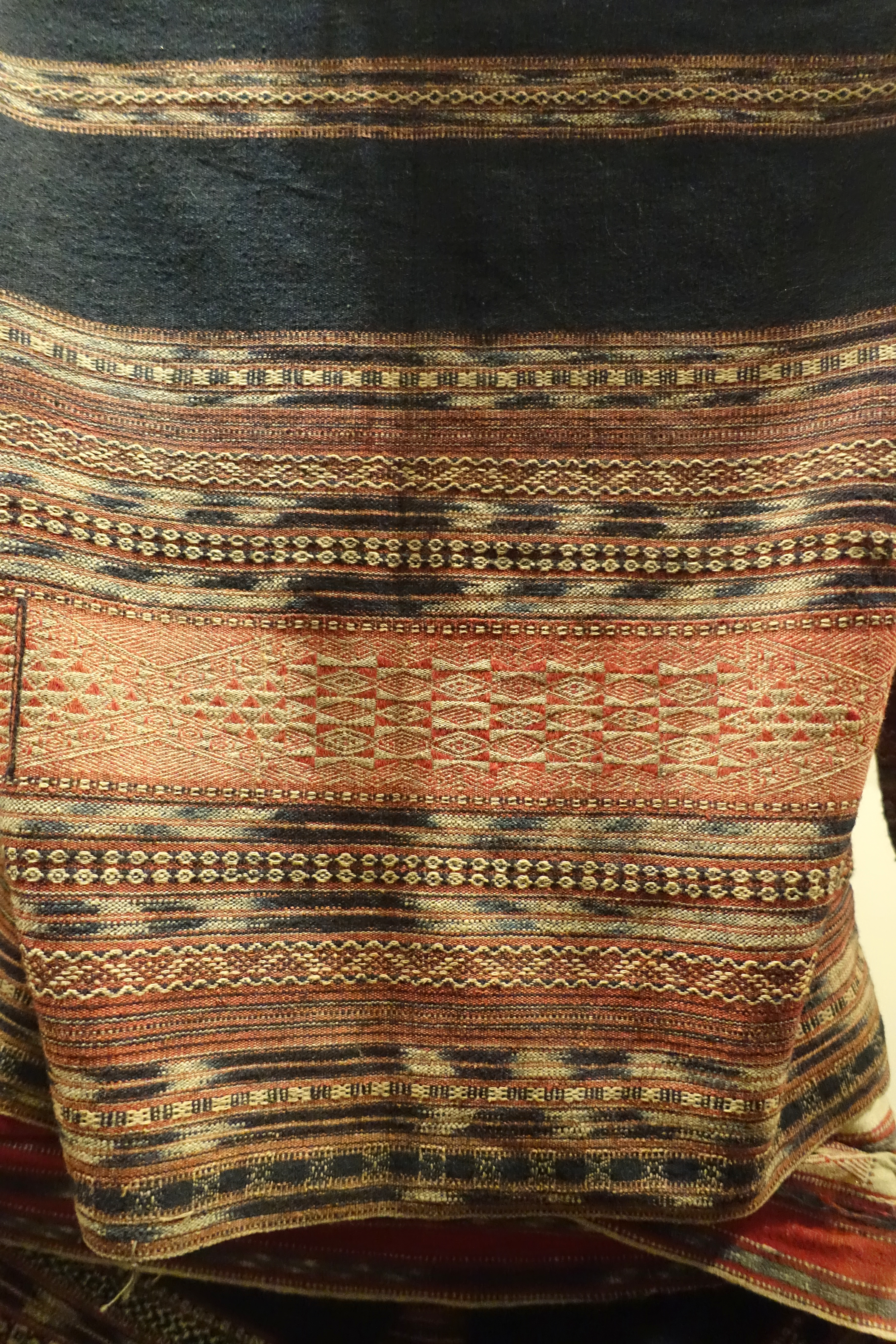 Exhibit in the Vietnam National Museum of Fine Arts - Hanoi, Vietnam. This artwork is old enough so that it is in the public domain.